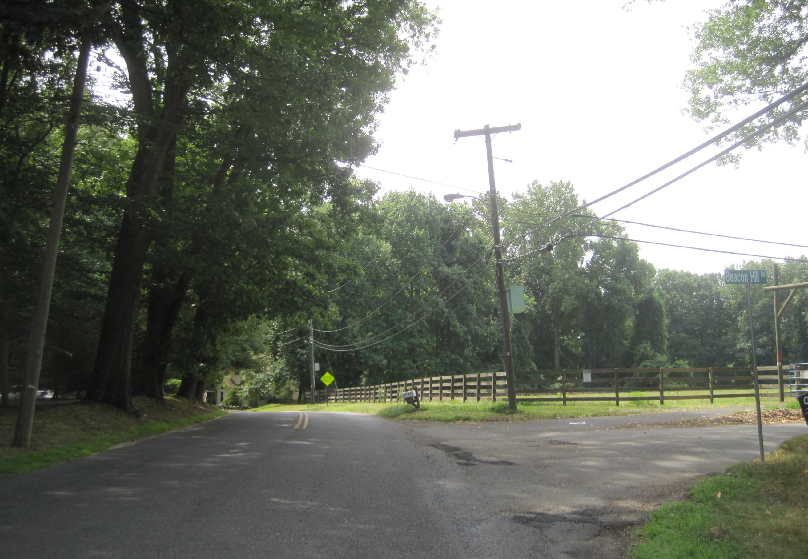 Photo of Mount Pleasant, New Jersey, an unincorporated community within Marlboro Township, Monmouth County. Photo taken on southbound Reids Hill Road at Beacon Hill Road.